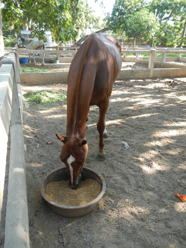 Horses in stables in Pulilan Polo Field of founder, Atty. Jun Eusebio BigBen Farm, Sitio Lucky 14, Barangay Tabon,Pulilan, Bulacan - this is a landmark site in Equestrian or horsemanship in the Philippines and subject shooting location of many Philppine TV series, dramas, soap operas like PariKoy, inter alia, and the Polo fields playing by international Polo players regularly.